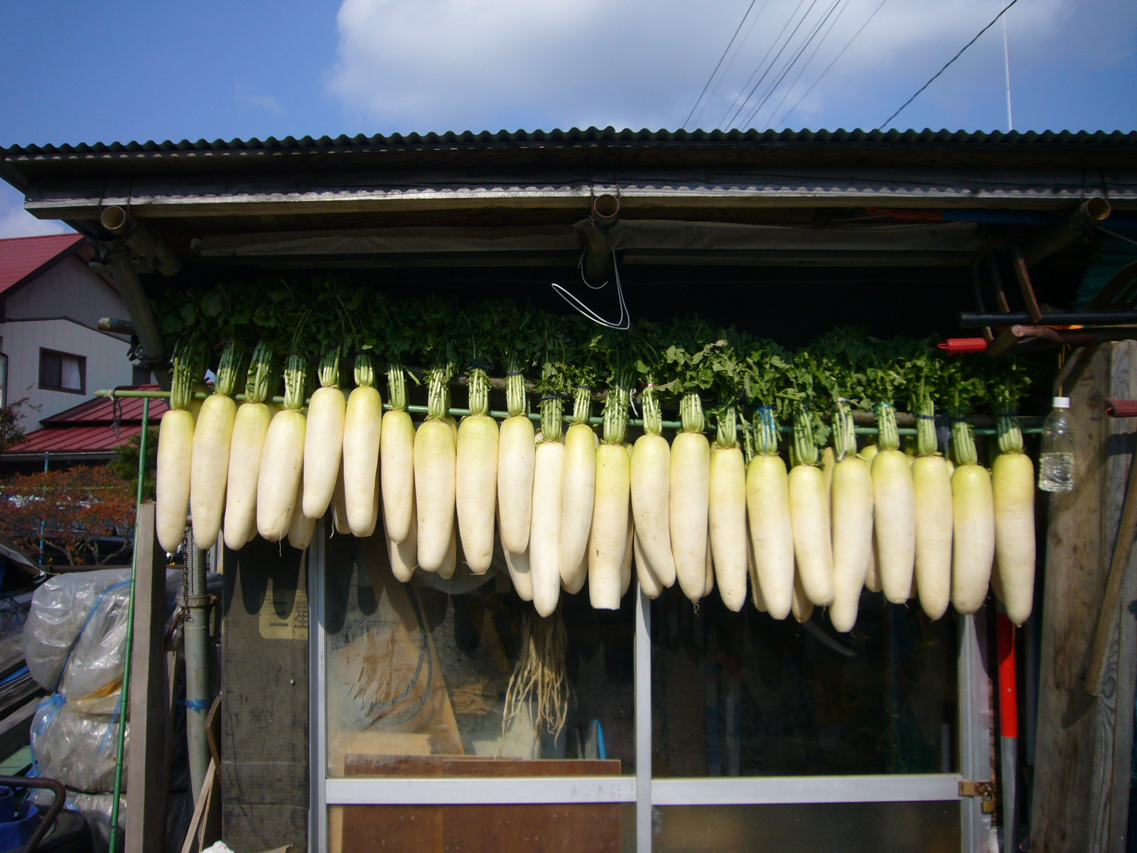 This photo is by studio tdes. You’re welcome to use it. We like to share. Please link to us: Details on how to credit us